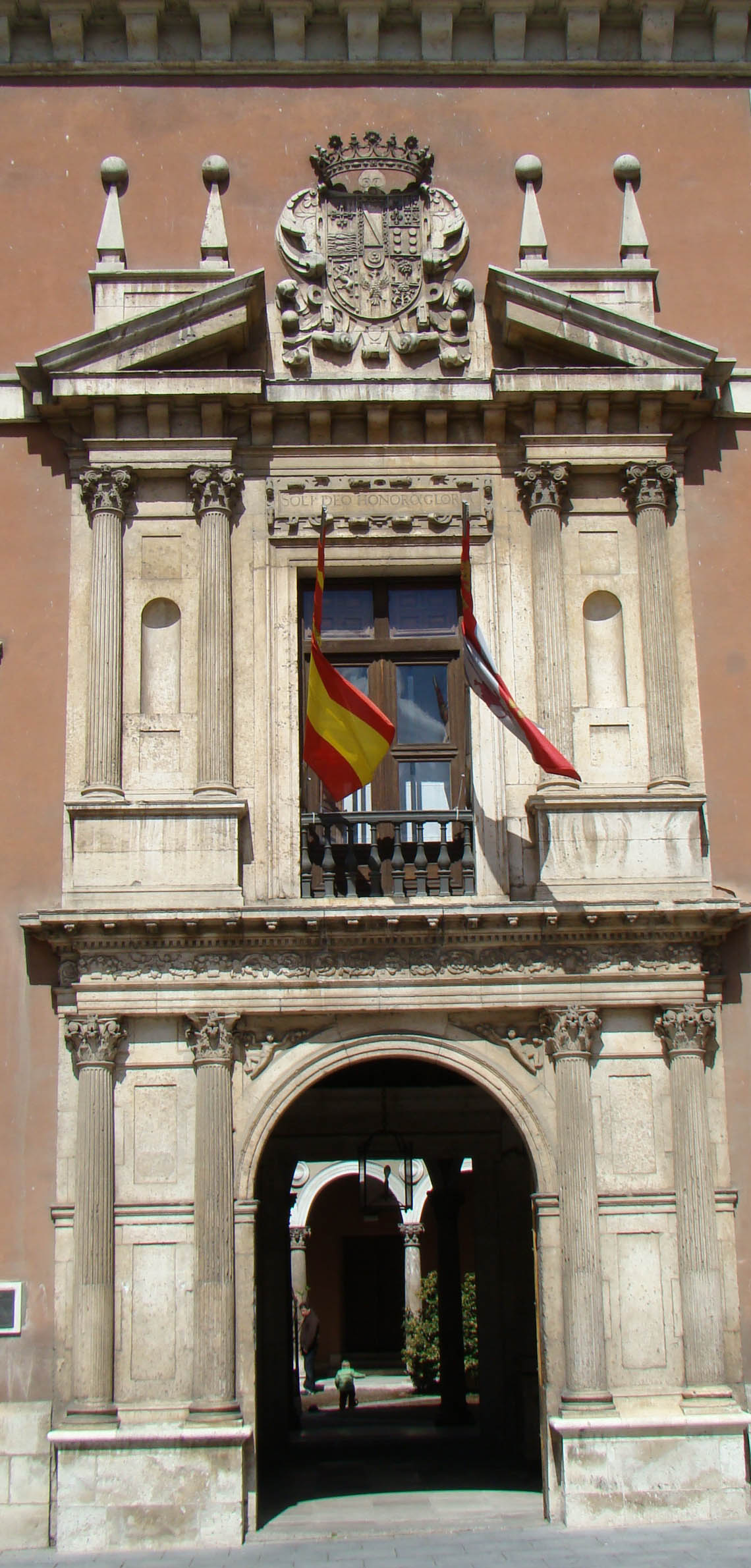 Classicist palace named Fabio Nell in Valladolid, Spain. Gateway, author Pedro de Mazuecos el Mozo. Semicircular gate with double fluted columns at the sides and on it, a decorated frieze with vegetal figures and other decorations.